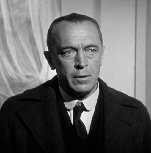 Konstantin Shayne in The Stranger - cropped screenshot